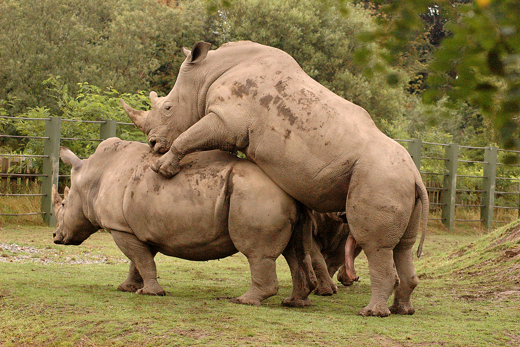 White Rhinoceros, Ceratotherium simum, mating